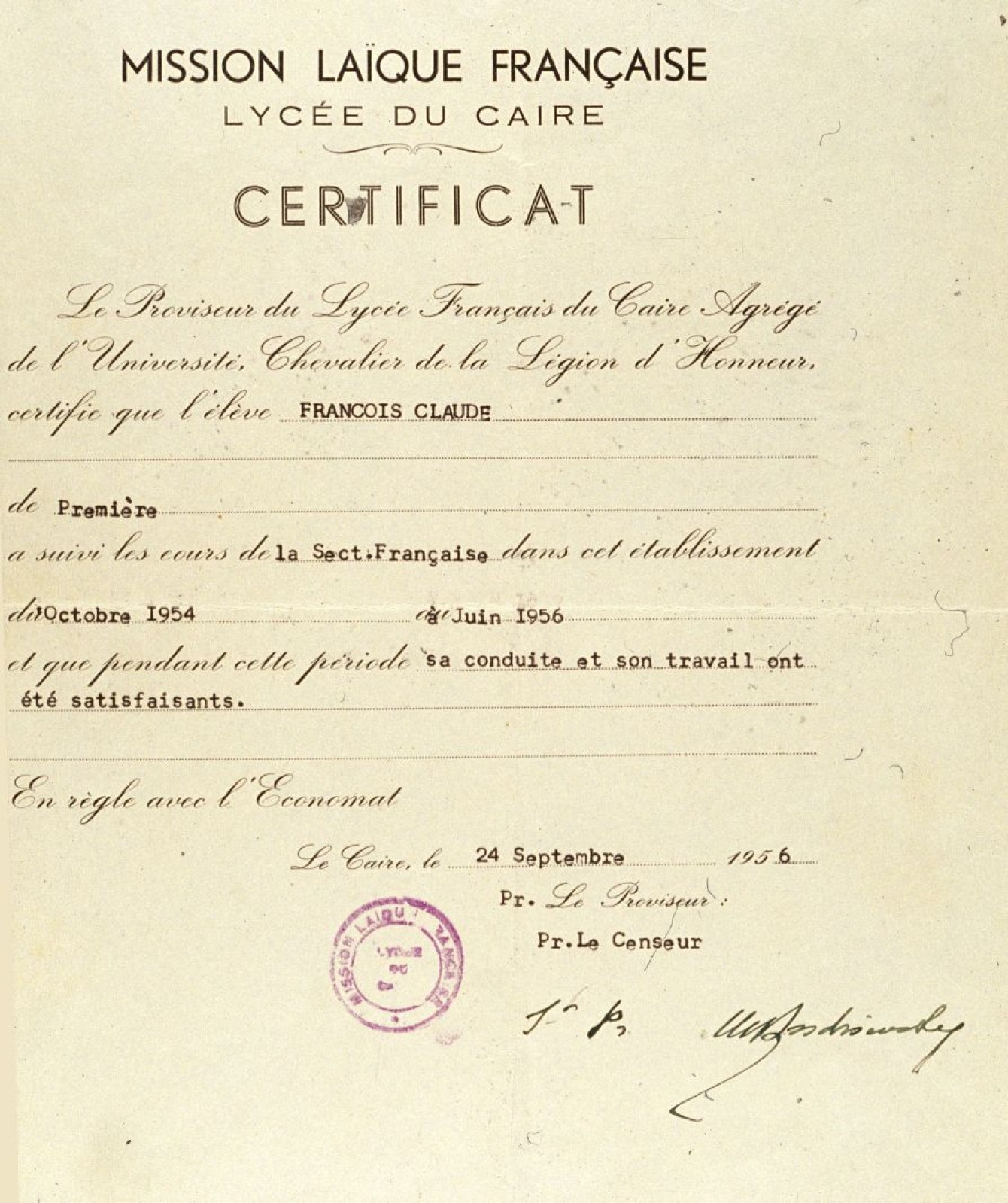 Claude François school attendance certificate - Lycée français du Caire - 1956